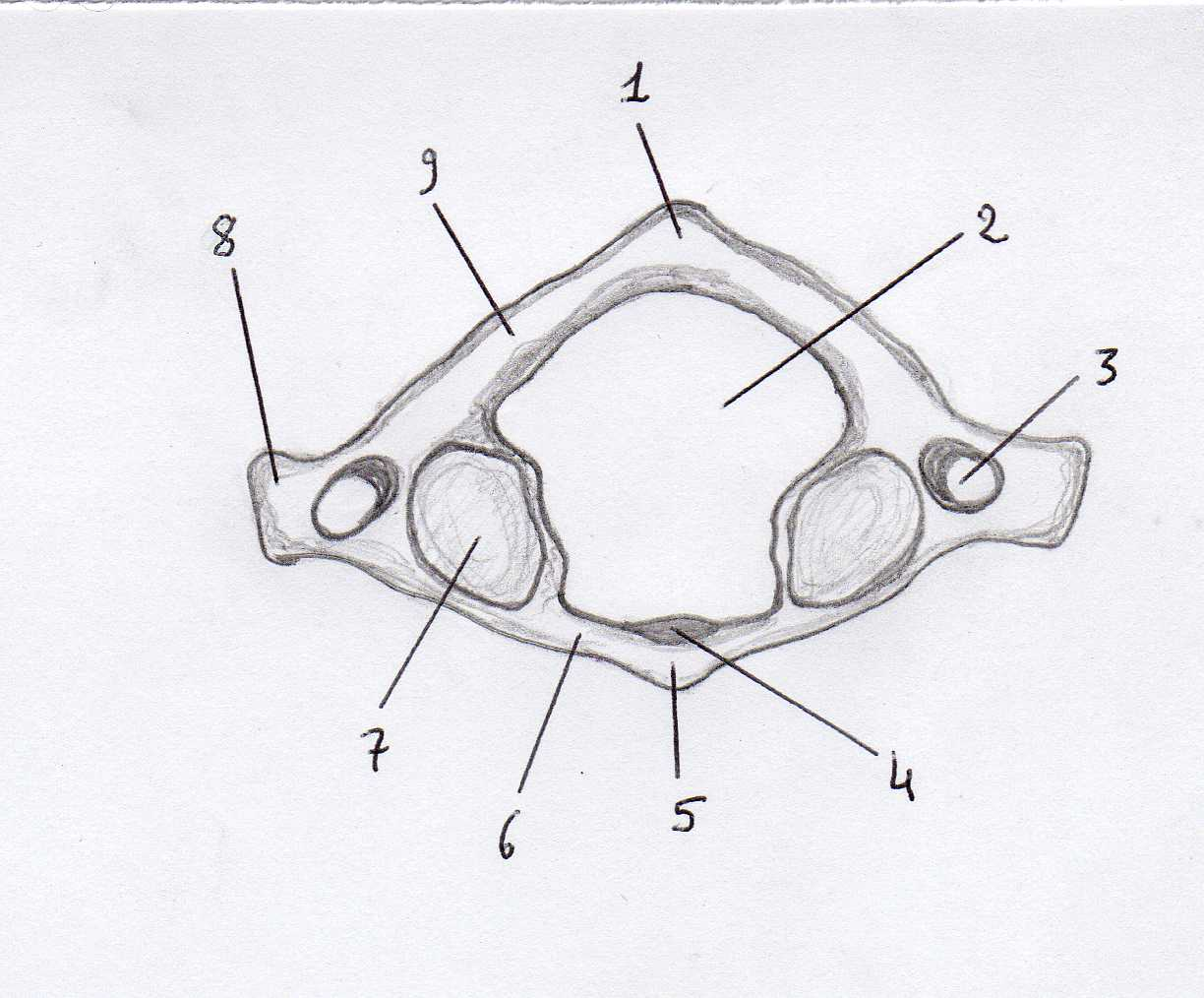 Inferior view of human first vertebra : C1 or Atlas